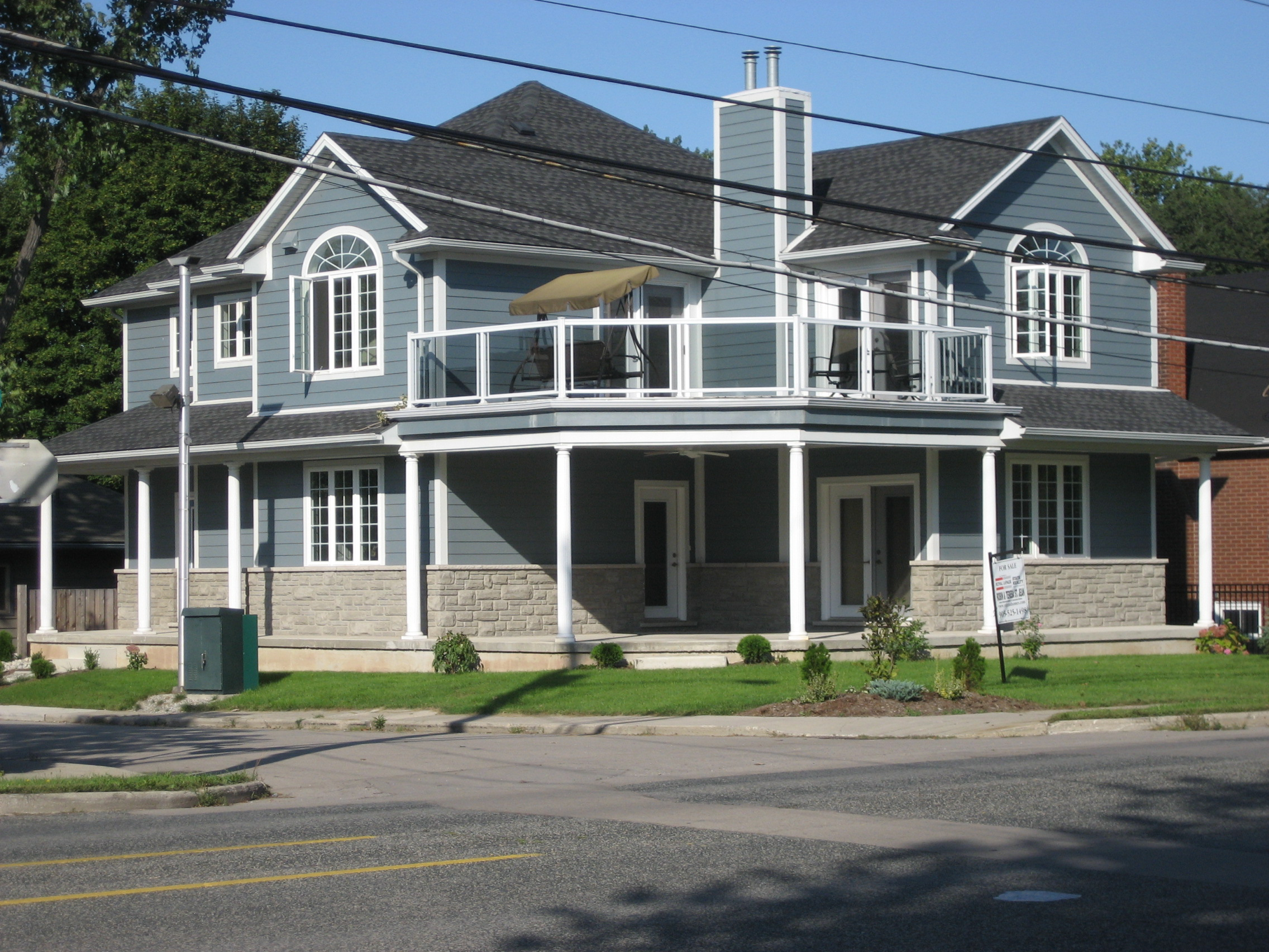 Beach Boulevard home, Hamilton, Canada.